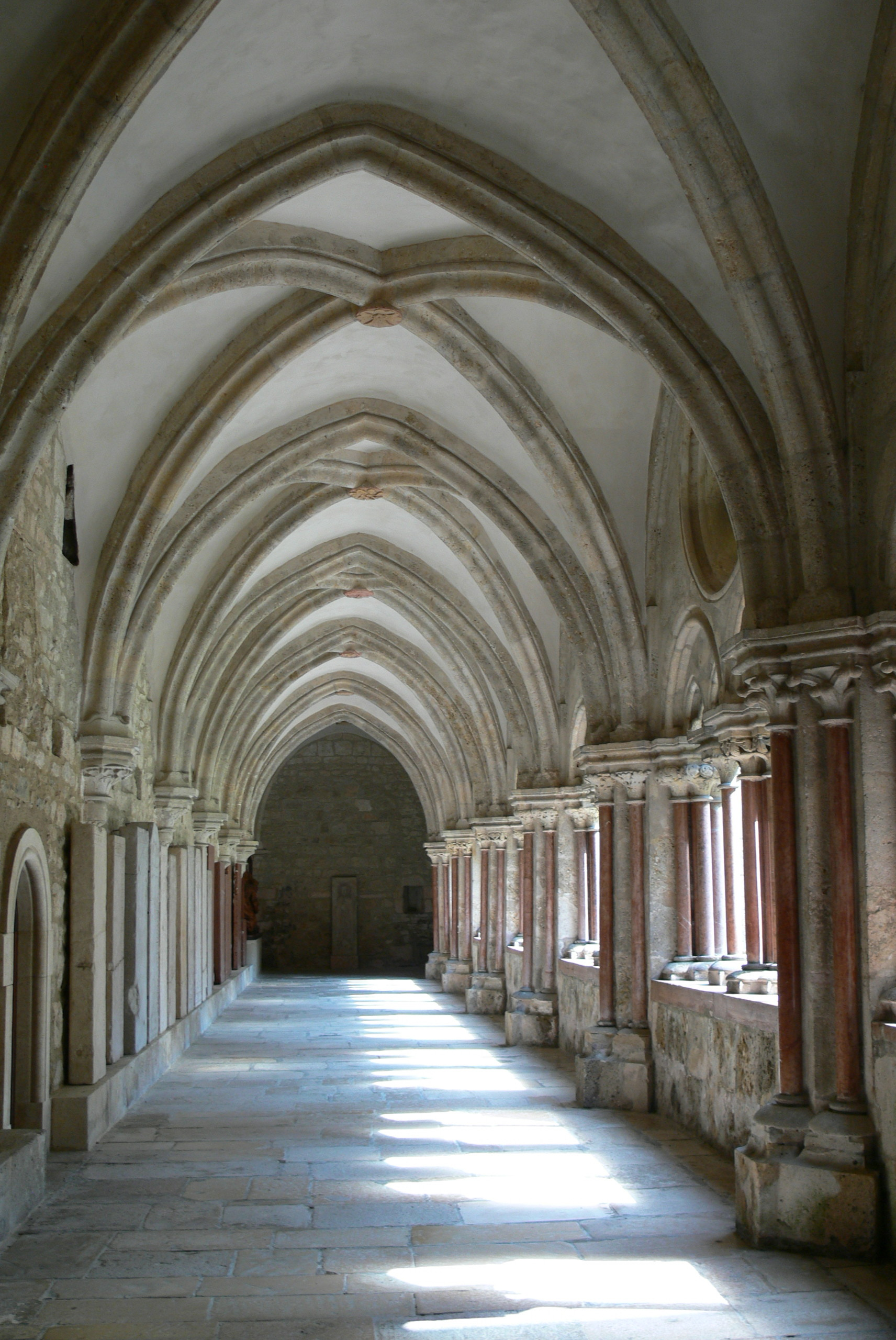 Heiligenkreuz abbey ( Lower Austria ). Gothic cloisters ( 13th century ).